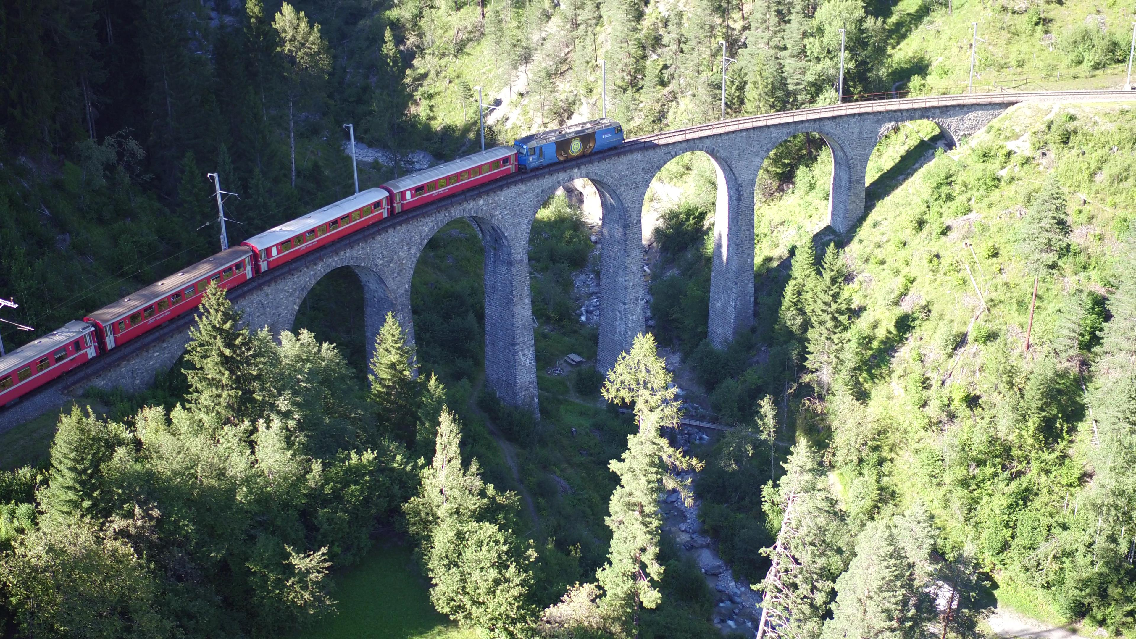 Aerial recording of Schmittentobel Viaduct (1036 m, Schmitten-Albula/Alvra, Grisons, Switzerland)